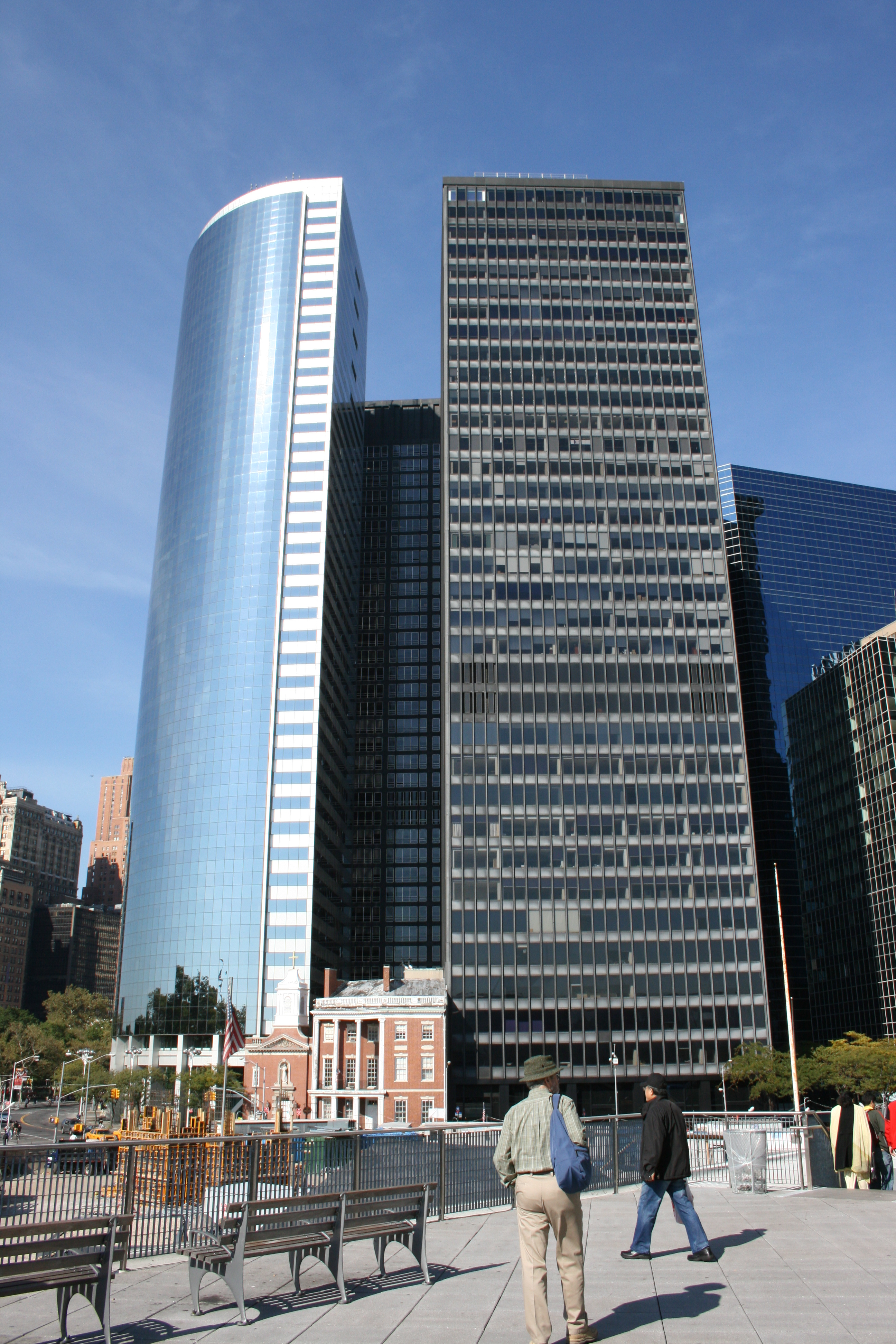 17 State Stree